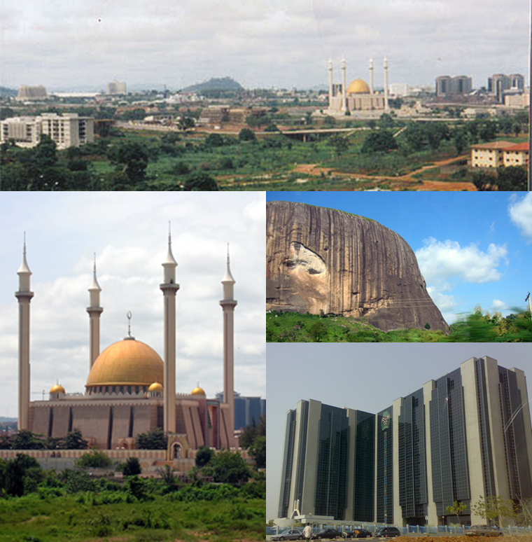 Abuja, the Capital of Nigeria Abuja National Mosque Zuma Rock in Abuja, Nigeria. Central Bank of Nigeria